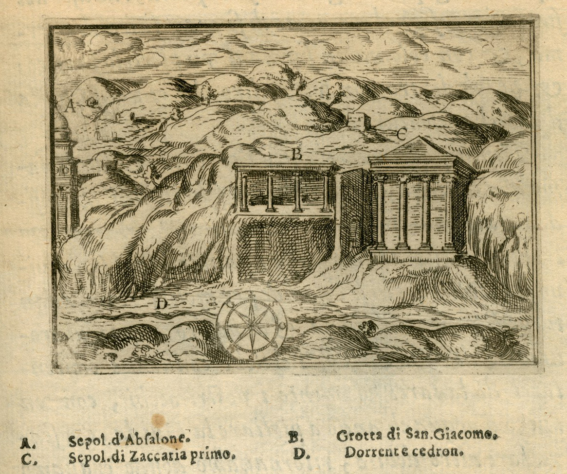 Jean Zuallart. Il devotissimo viaggio di Gerusalemme fatto, & descritto in sei libri dal Sig. Giovanni Zuallardo, Cavaliero del Santiss Sepolcro di N.S. l'anno 1586, Rome, F. Zanetti & Gia Ruffinelli, MDLXXXVII (1587)